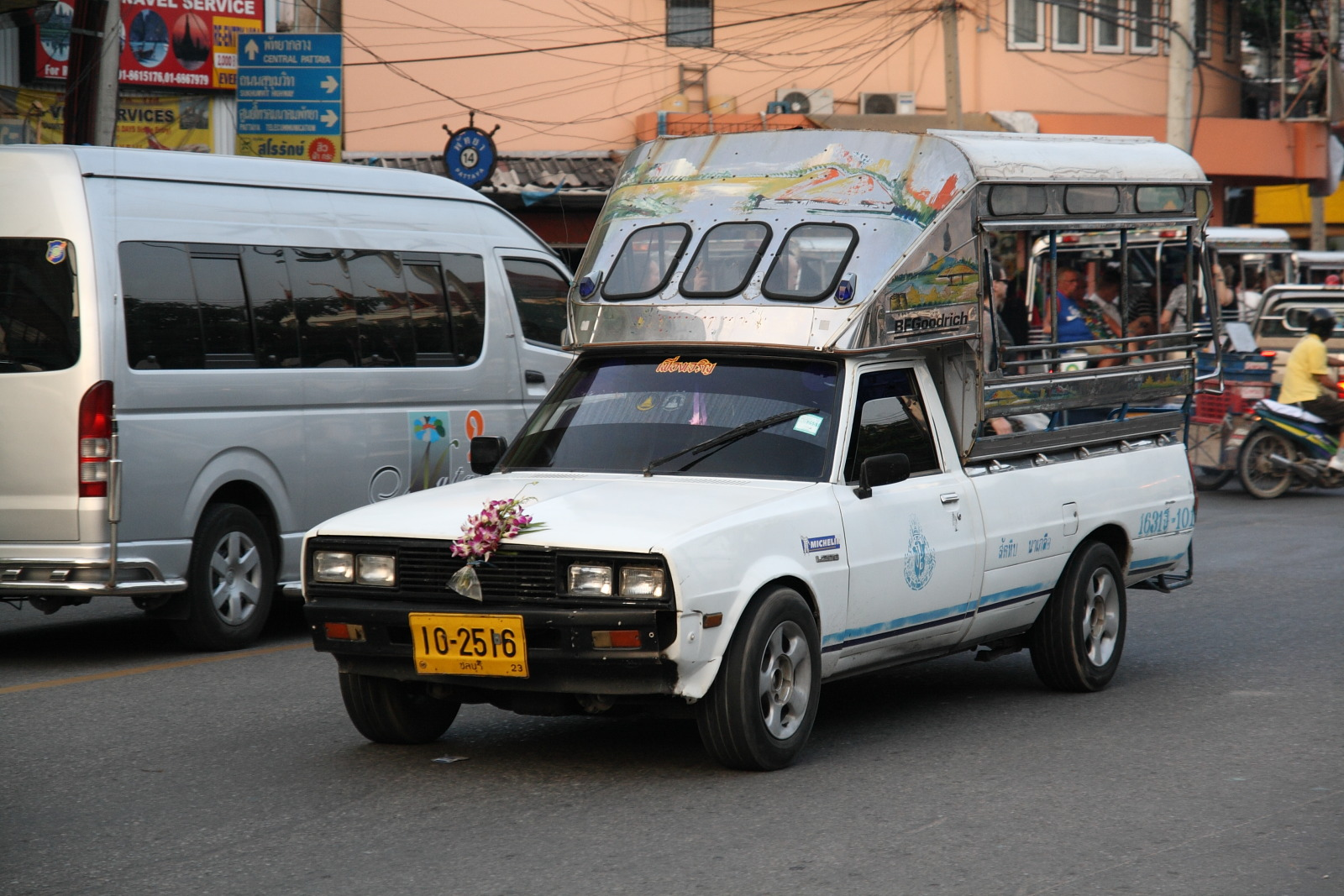 A white songthaew on 2nd Road, Pattaya, Thailand (Mitsubishi L200)